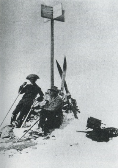 first winter ascent to Aroser Rothorn in 1893